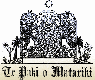 Masthead from Te Paki o Matariki, newspaper of the Kīngitanga (Māori King Movement), edition of May 8, 1893. This represents Matariki or the Pleiades as harbingers of good weather and fruitful endeavours. "Te Paki o Matariki" is also the name of a well-known song associated with the Māori King Movement.